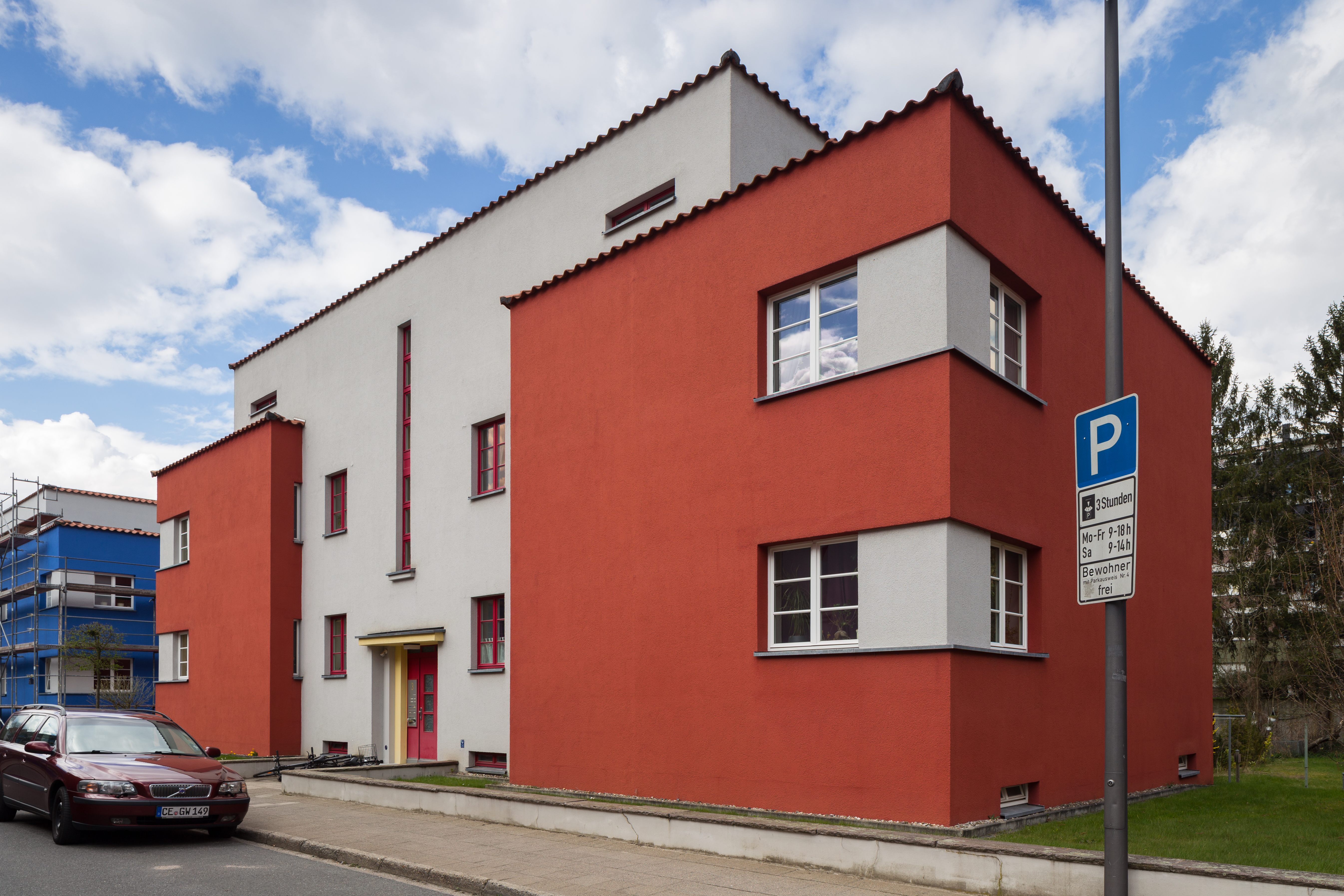 Housing complex "Italienischer Garten" (= Italian Garden) located in Celle, Lower Saxony, Germany. The complex was planned by the German architect Ottos Haesler in 1924/25.